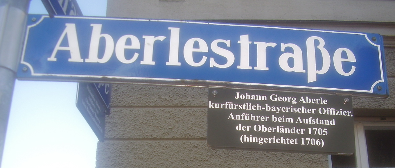 Aberlestraße, Munich (street name sign)